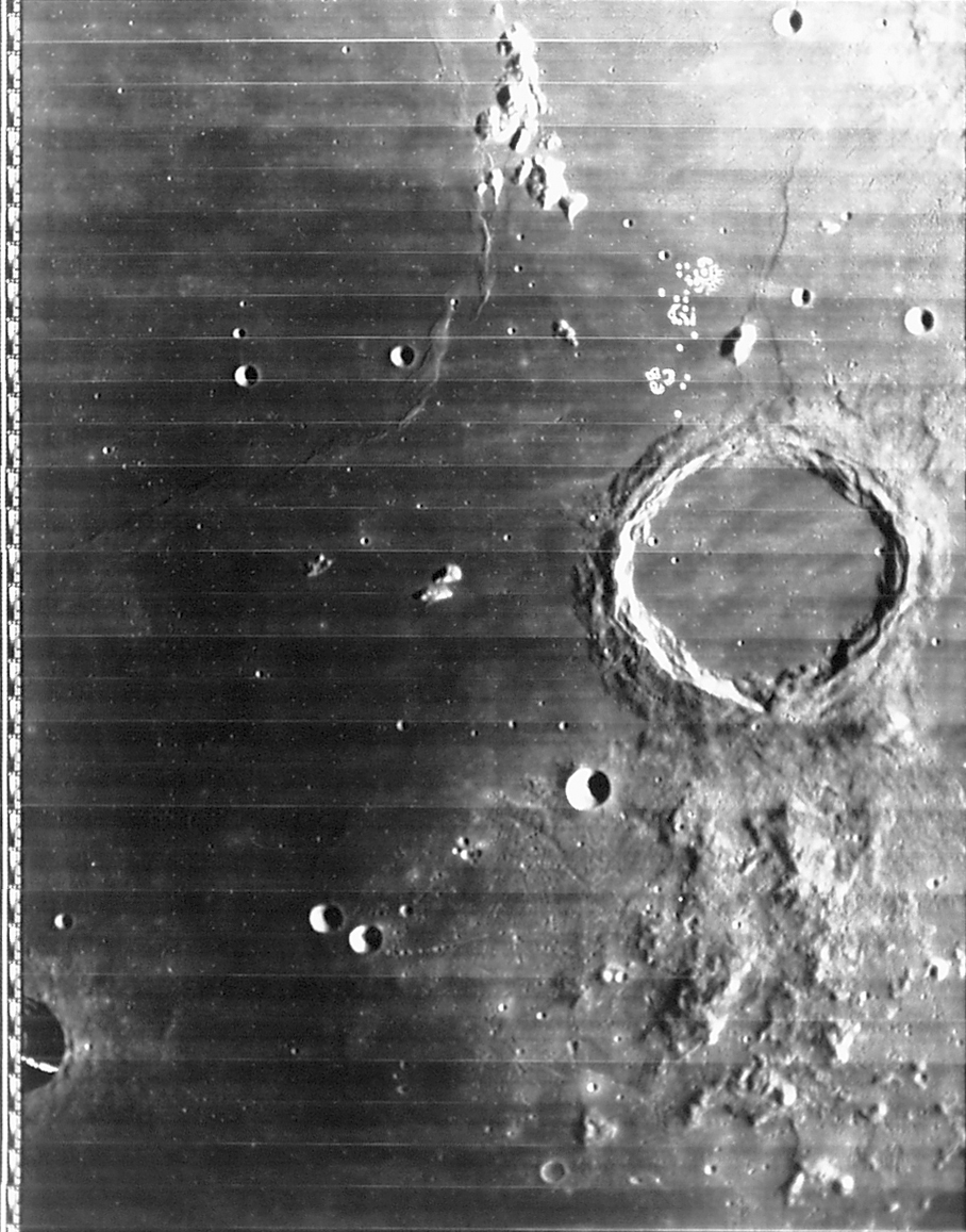 Montes Spitzbergen and Archimedes crater